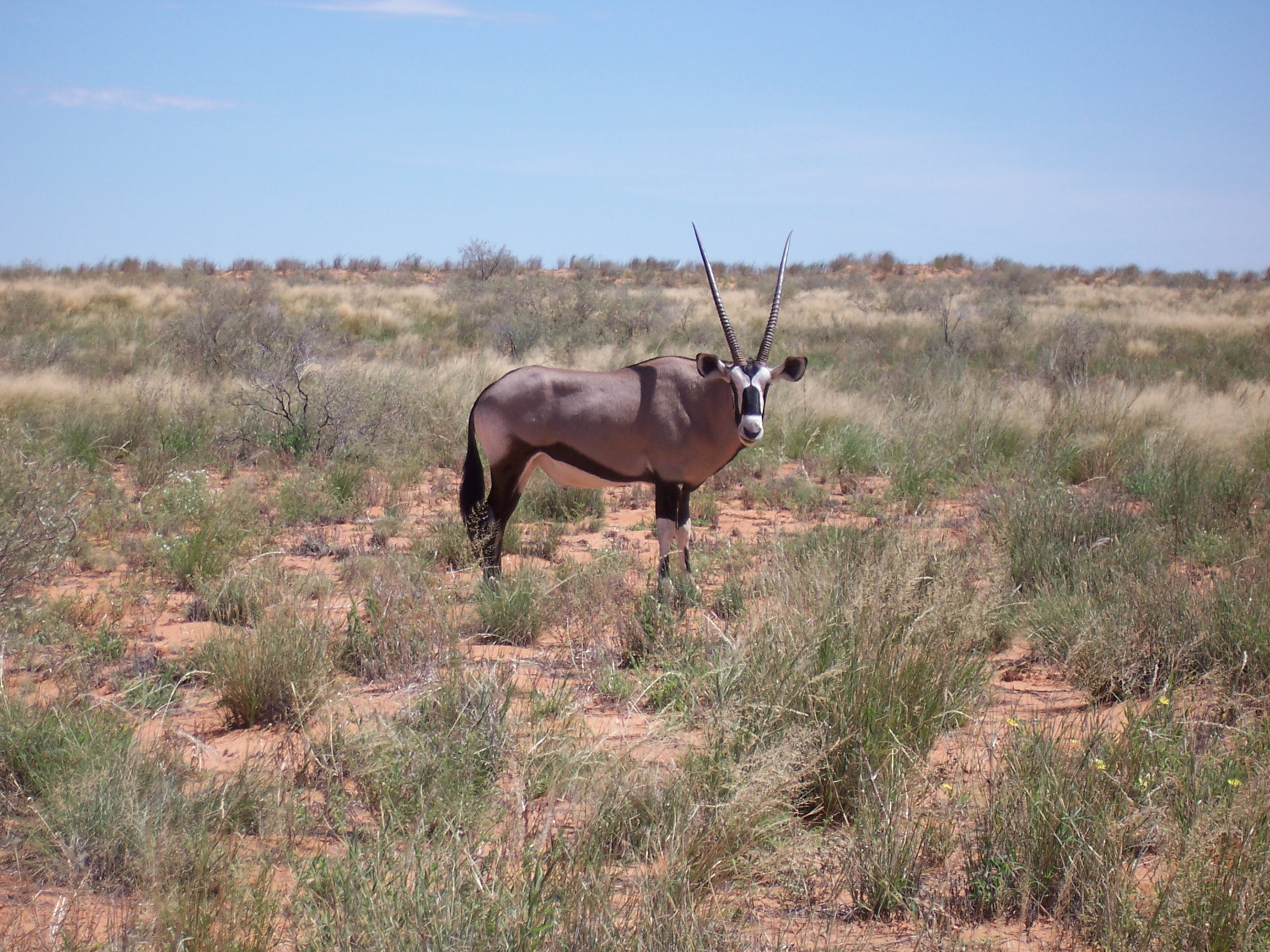 Gemsbock in the Kalahari National Park, South Africa